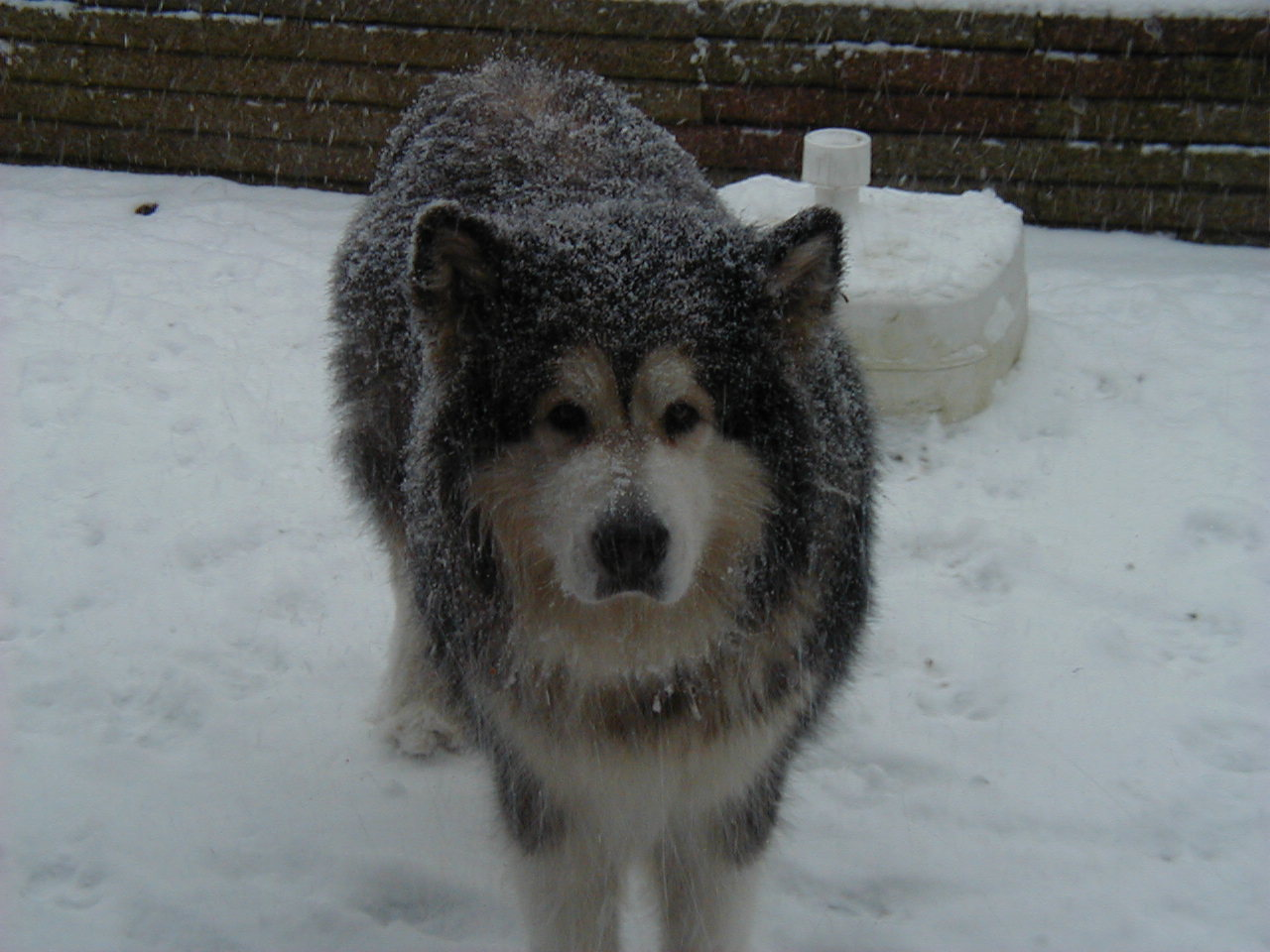 Own photo (author of danish wiki-article on Alaskan Malamute)